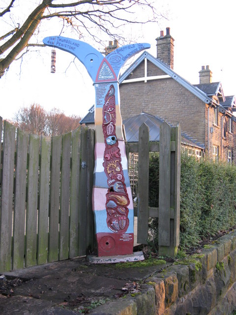 Mileage marker at Wortley Mileage marker on the former railway line (now part of the trans-Pennine path) outside the old Wortley Station house.